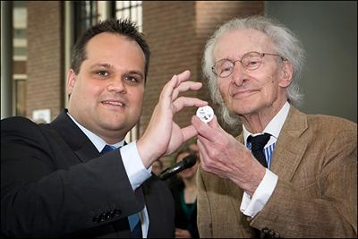 May 7, 2010 - First minting of the Max Havelaar five Euro commemorative coin. Finance Minister Jan Kees de Jager gave a speech at the ceremony opened by Harry Mulisch, the noted Dutch novelist (29 July 1927 - 30 October 2010). The coin was issued to mark the 150th anniversary of the publication of "Max Havelaar" by Multatuli.